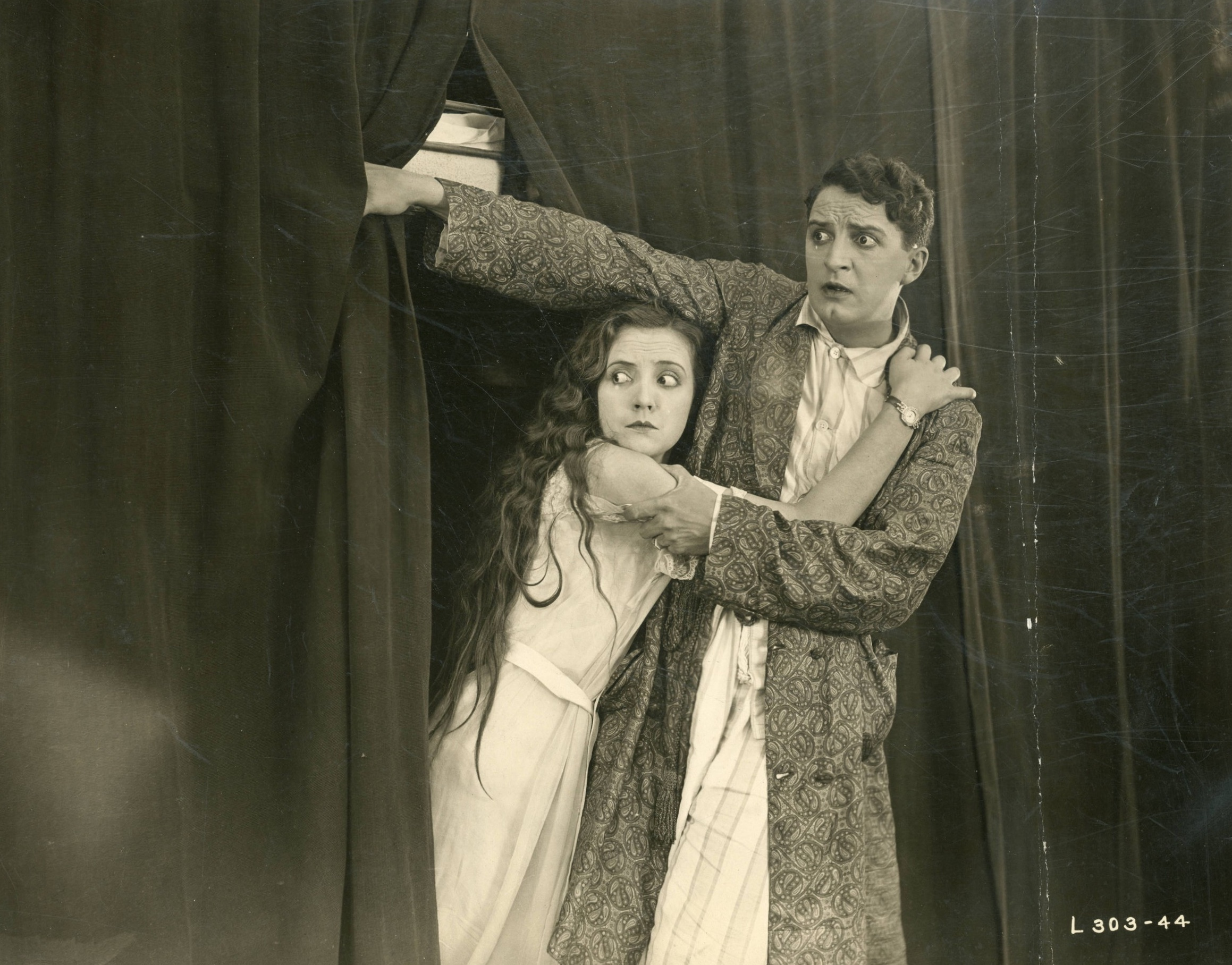 Publicity photo for the American comedy film Why Smith Left Home (1919), some digital artifacts exist in this version.